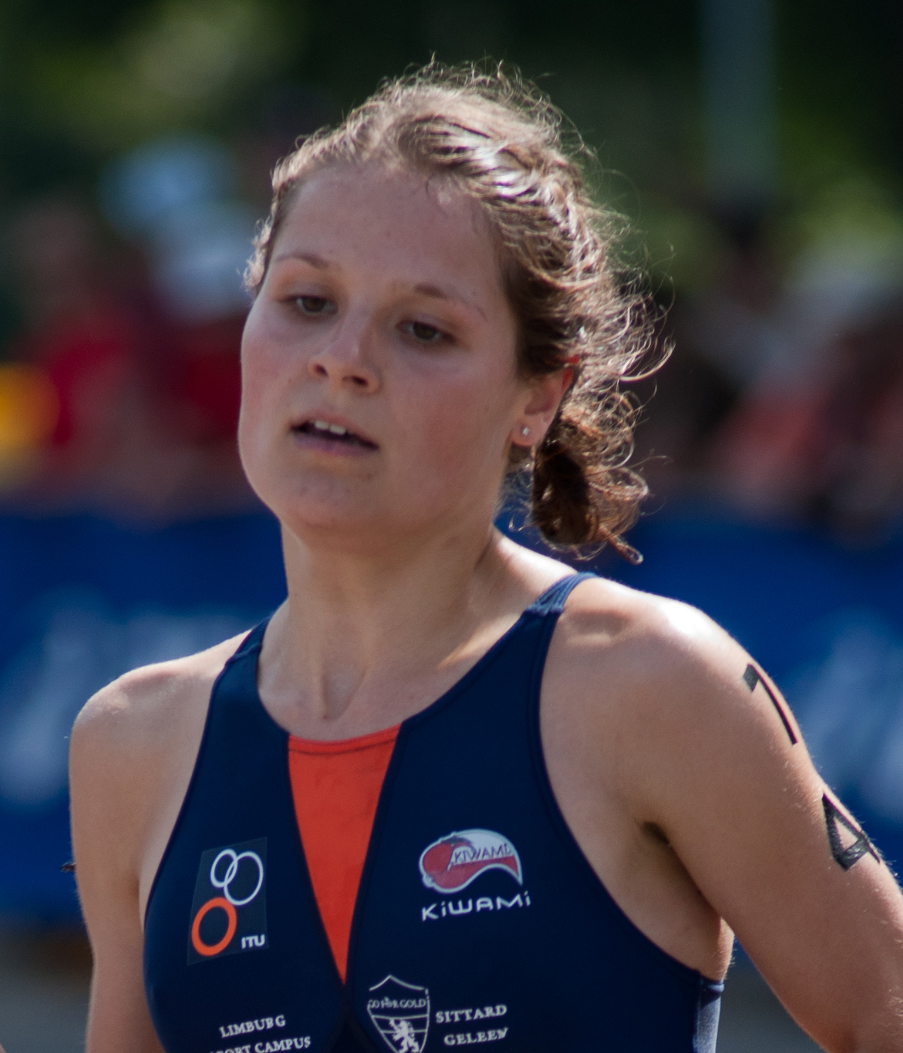 2010 ITU Sprint Distance Triathlon World Championships, Lausanne, Switzerland.